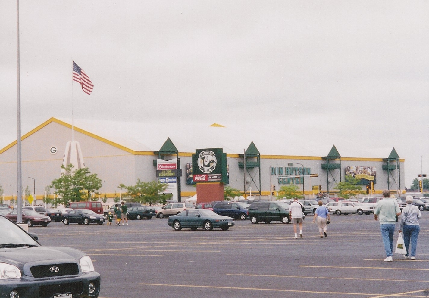 The exterior of the Don Hutson Center in Green Bay, Wisconsin (United States).